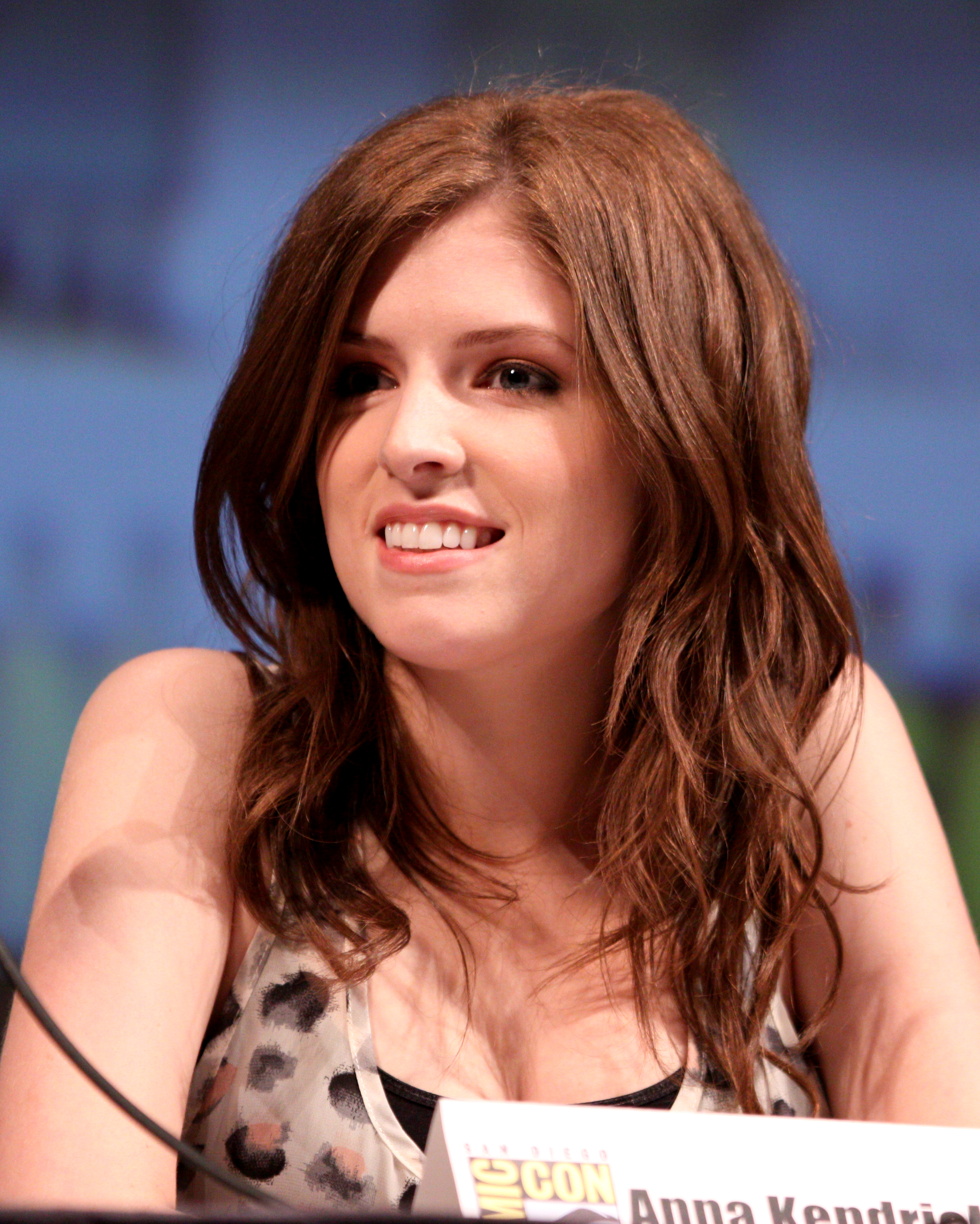 Anna Kendrick at the 2010 Comic Con in San Diego